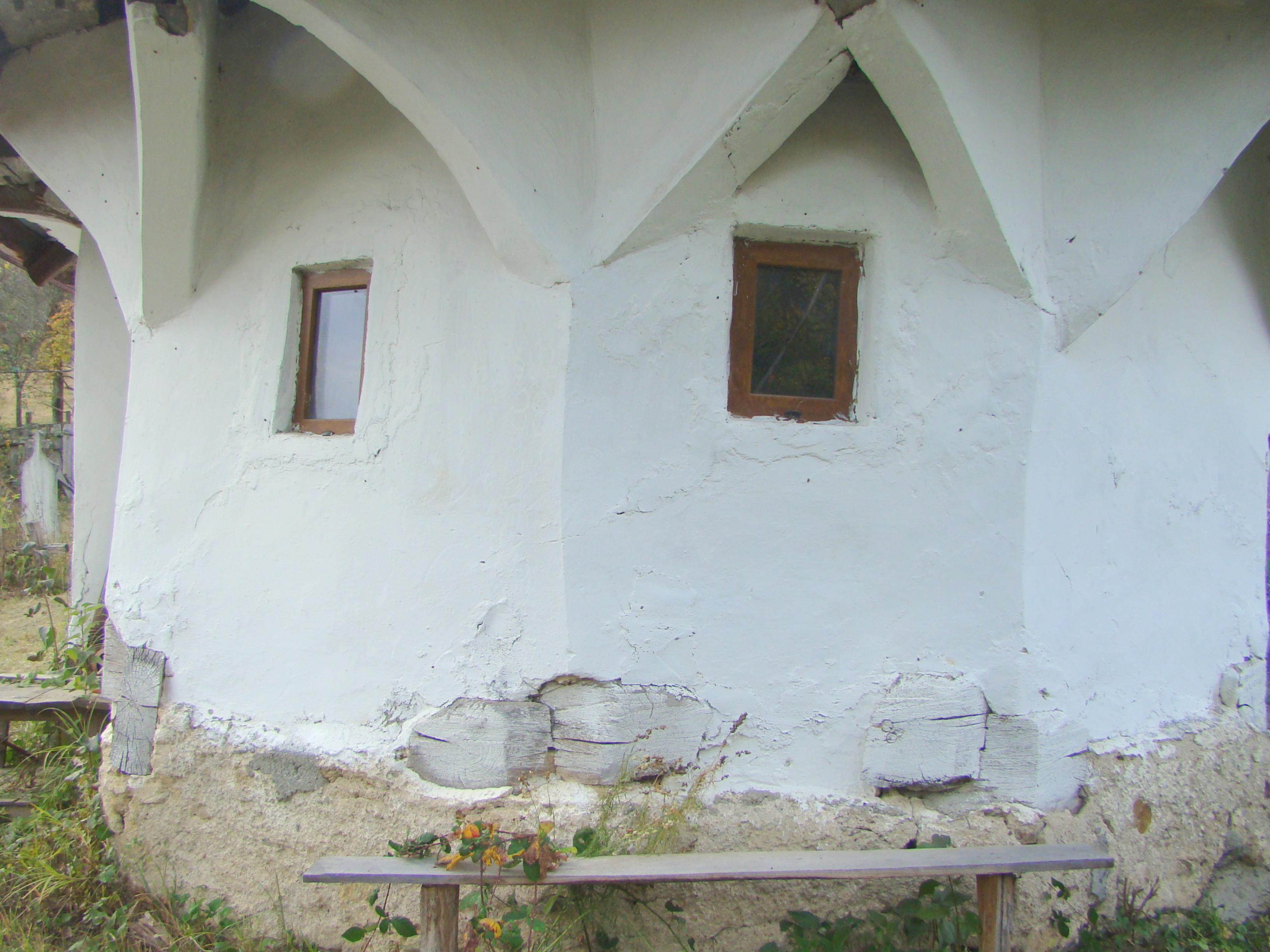 Wooden church in Pistrița, Mehedinți county, Romania